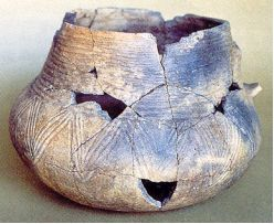 Ceremonial ceramic from the neolithic Gaudo culture.